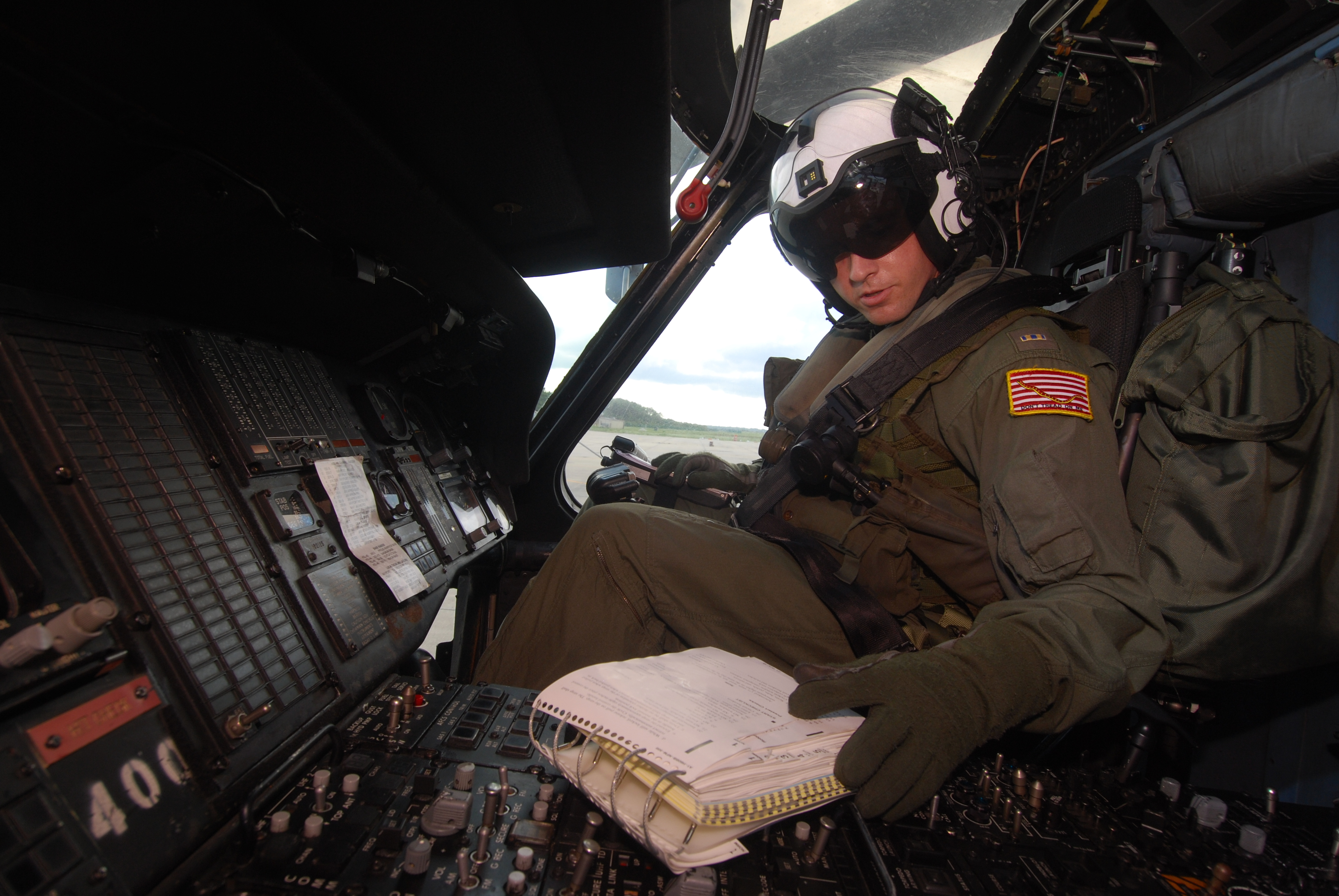 MAYPORT, Fla. (Sept. 10, 2009) Chief Warrant Officer Kevin Holland goes over the pre-flight checklist while sitting in the SH-60B Sea Hawk helicopter preparing to leave Naval Station Mayport, Fla. (U.S. Navy photo by Mass Communication Specialist 1st Class Monica Nelson/Released)